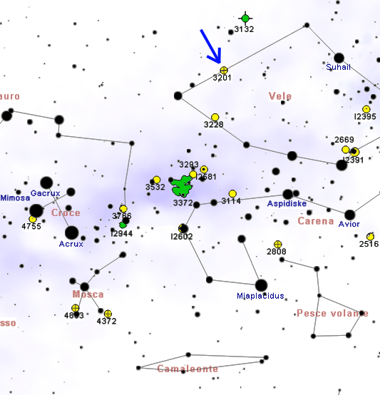 NGC 3201